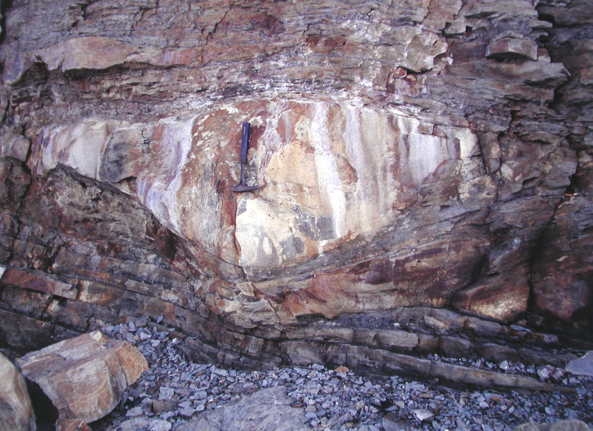 Centroclinal cross-strata developed around a lycopsid in the Joggins Formation (Pennsylvanian), Cumberland Basin, Nova Scotia.